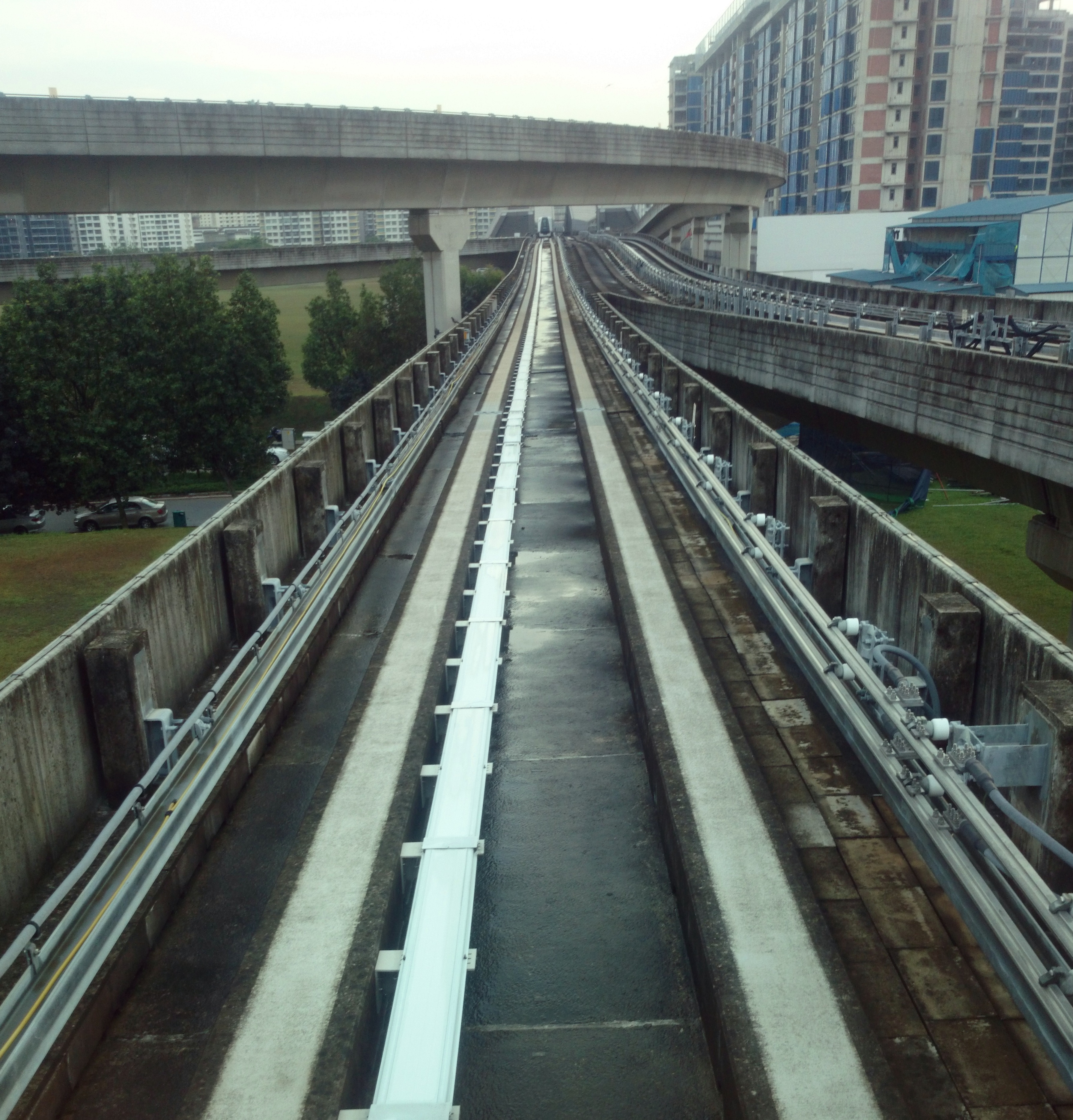 Track of Singapore LRT, viewing straightly.